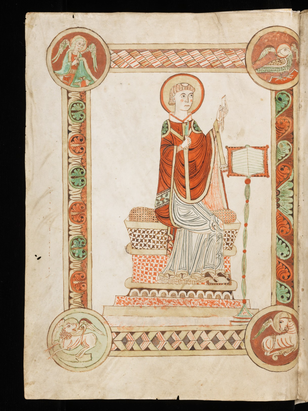 Venerable Bede in an illustrated manuscript, writing his Ecclesiastical History of the English People